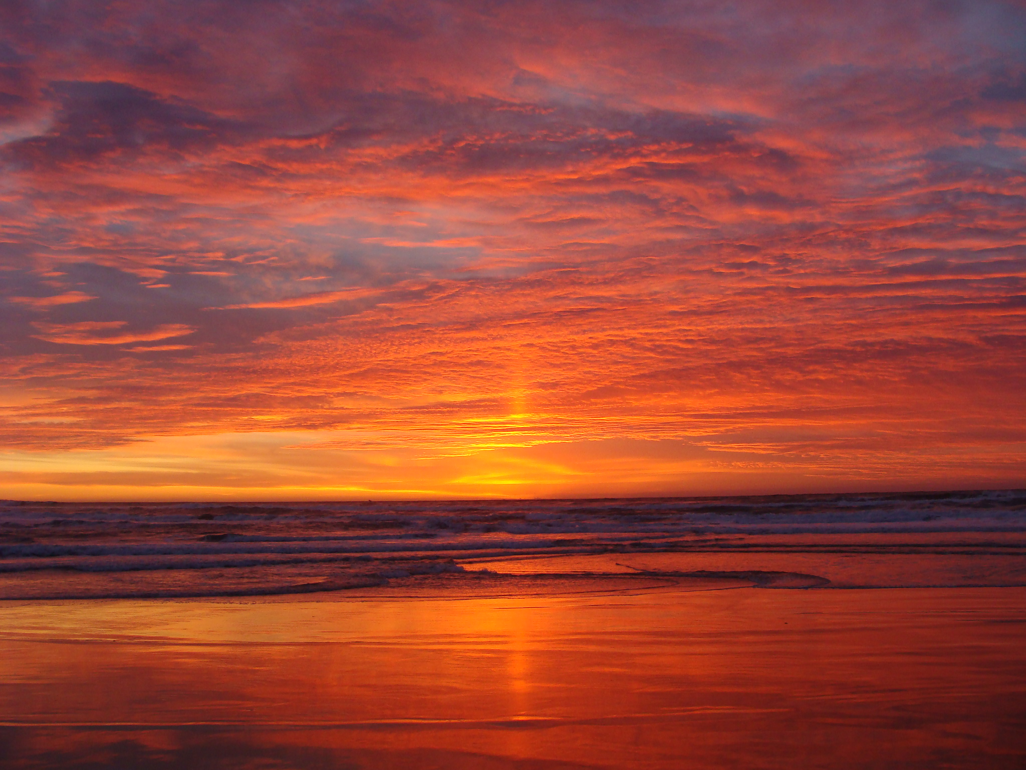 Sunset taken at Salinas River State Beach, in Monterey County, California.